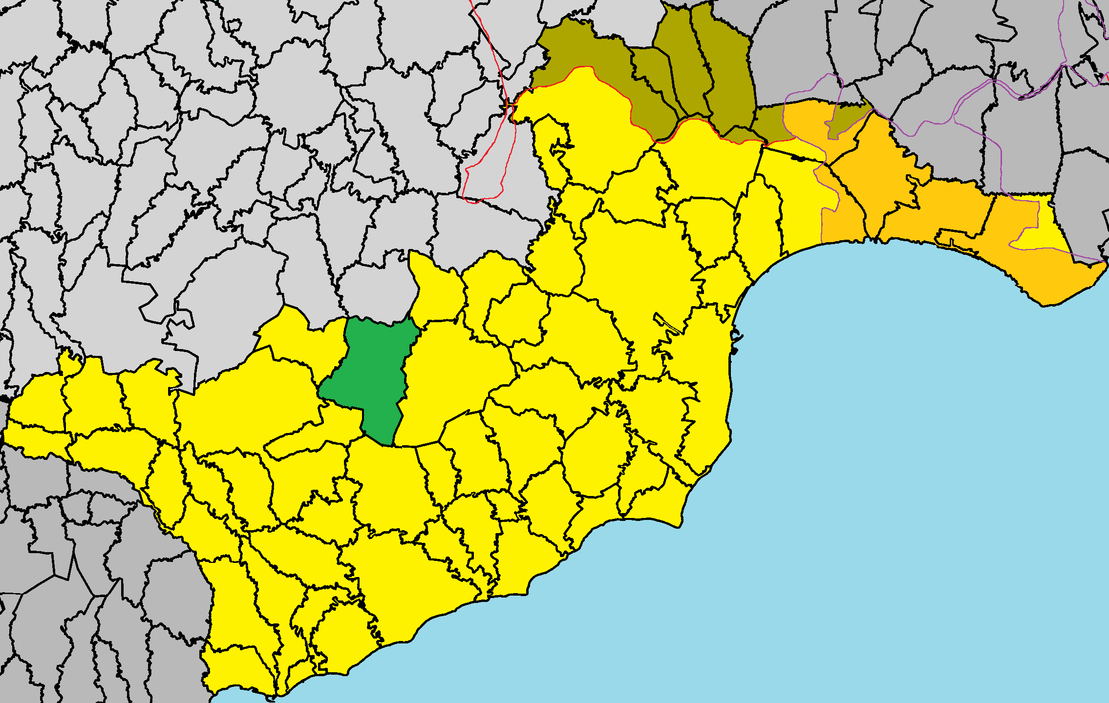 Kornos in Larnaca District.